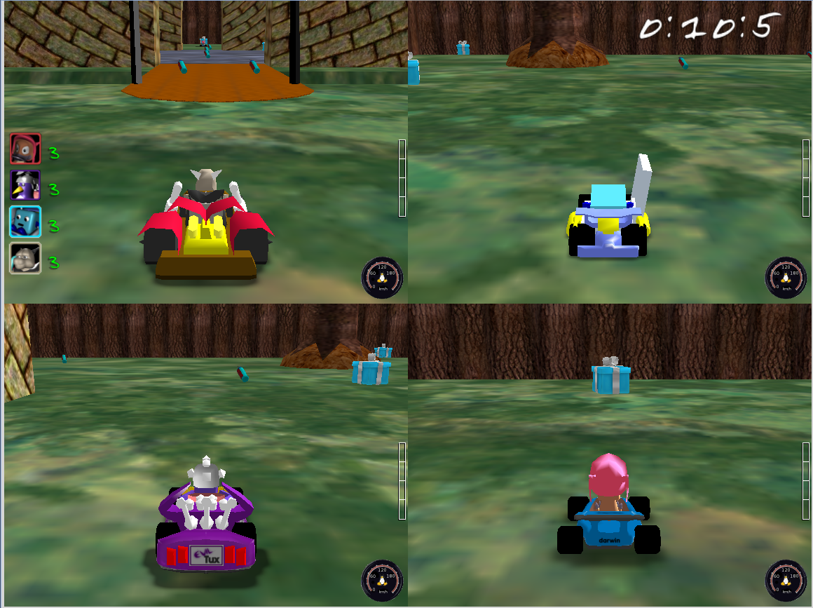 Splitscreen for 4 players on one PC